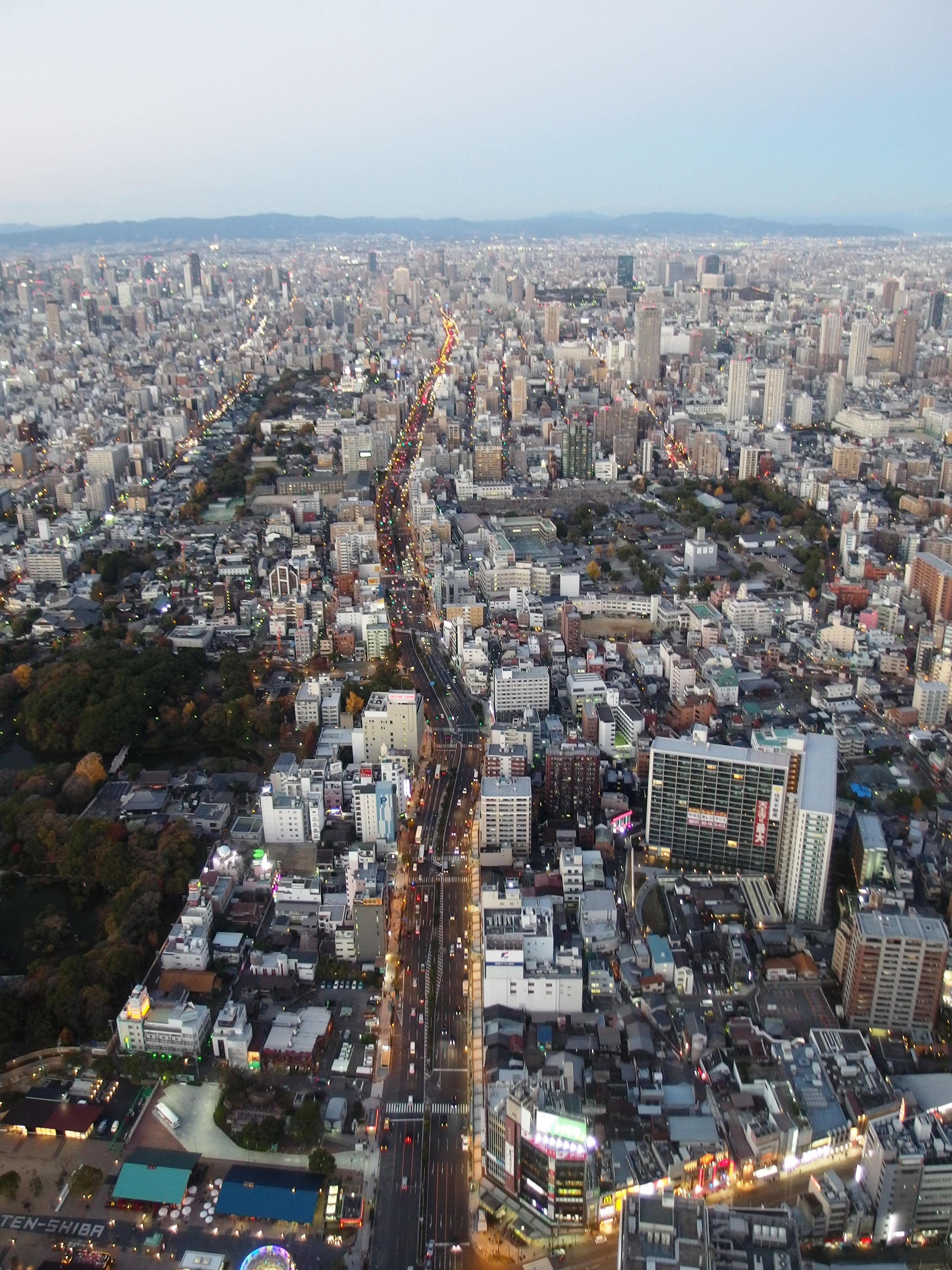 Tanimachi-suji Street views from Abeno Harukas in Osaka, Osaka Prefecture, Japan